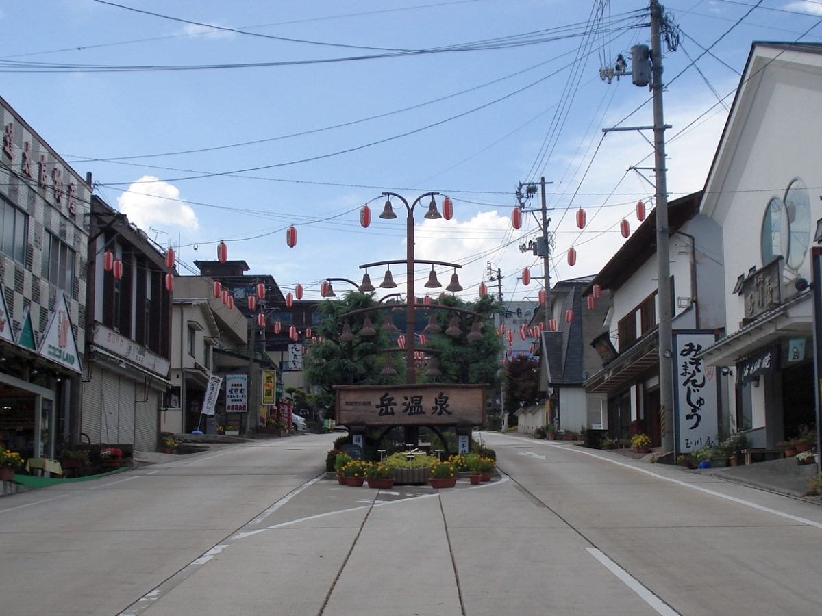 The main street of Dake-Spa, Nihonmatsu city, Fukushima prefecture, Japan